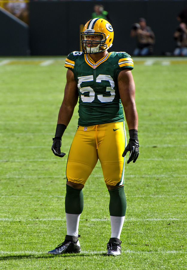 San Francisco 49ers vs. Green Bay Packers at Lambeau Field on September 9, 2012. Photo by Mike Morbeck.